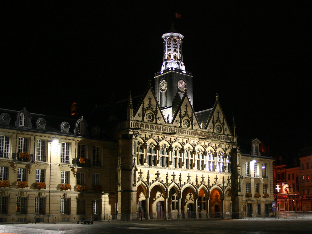 The floodlit facade of the town hall at St Quentin